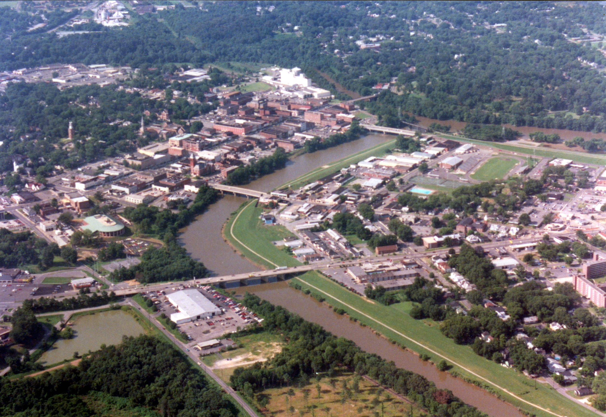 Aerial view of downtown Rome, Georgia, looking South-Southwest. Viewable are Broad Street, several of Rome's seven hills, the three rivers, several major bridges, the Clock Tower, the Old Courthouse, and many other features familiar to Romans. The river in the foreground is the Oostanaula, which flows from the bottom of the photo toward the top, and terminates where it meets the Etowah river, flowing in the from left side. This river junction is the head of the Coosa river, which flows off to the right side, and toward the State of Alabama. Before the city of Rome was established, this area was referred to by the Creek and Cherokee indians as "Head of Coosa". This picture is about twenty years old or more. Much has changed. That big white building in the lower left corner is now an olive garden, starbucks, and various other restaurants and stores. Also, that body of water to the left of it no longer exists. Famous Quote while overlooking a part of Rome: "That's the armpit of America." -Harrison Ford